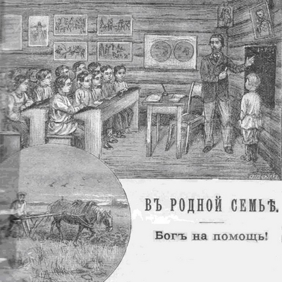 early Soviet poster